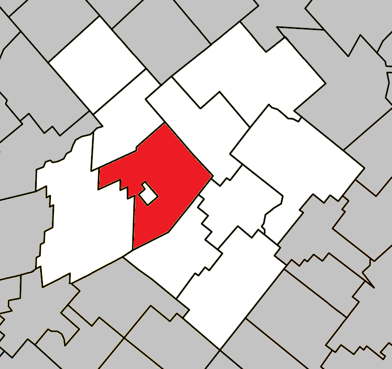 Location of Plessisville (parish), Quebec within L'Érable Regional County Municipality.